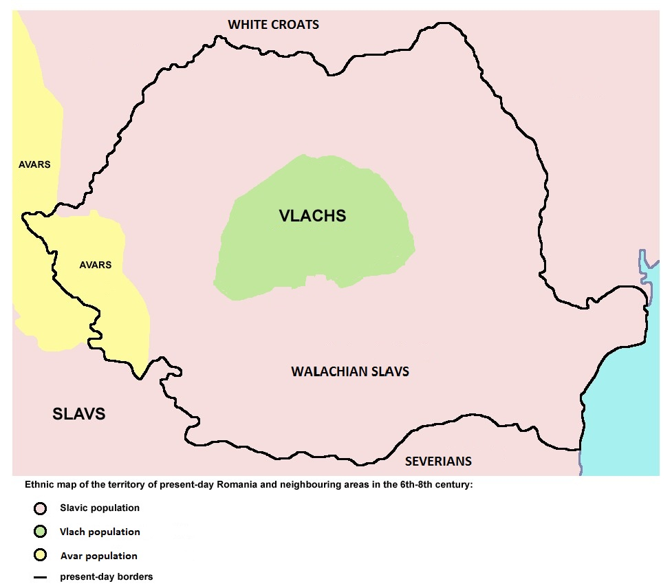 Ethnic distribution in the territory of present-day Romania and neighboring areas after the Slav Settlement (8th century)